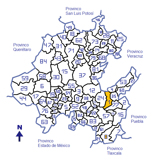 locator map